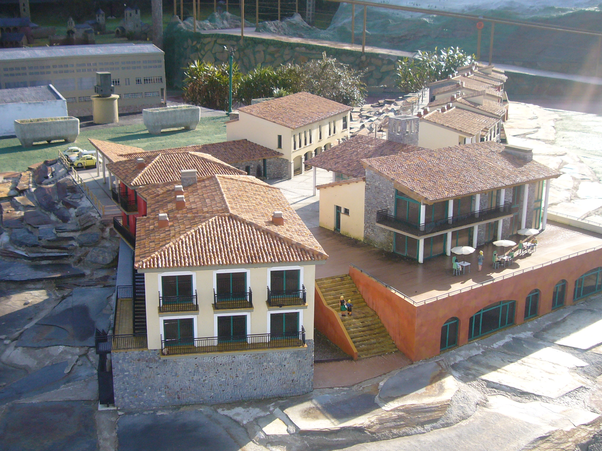 Scale model at the "Catalunya en Miniatura" miniature park : Vilar Rural del grup Serhs (Sant Hilari Sacalm)